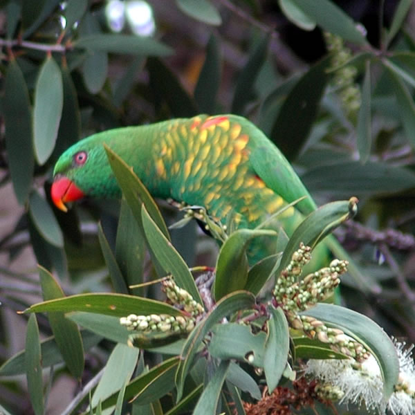 Bird, Scaly-breasted Lorikeet, Trichoglossus chlorolepidotus